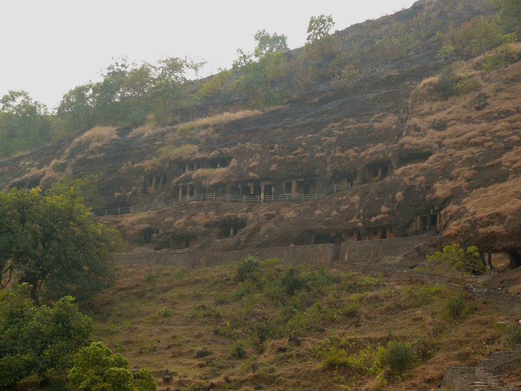 These are the Ancient Pandav Caves found near Mahad.